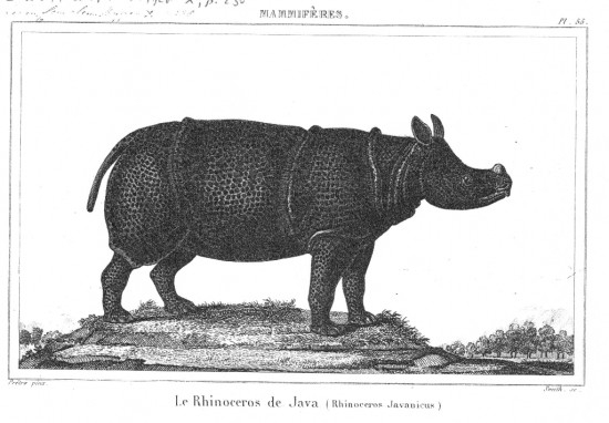 Javan rhinoceros. From R. Lesson, Complements de Buffon, 2nd ed. 1838, vol. 10 p.238.